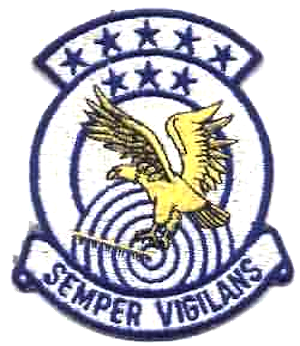 Emblem of the 689th Radar Squadron